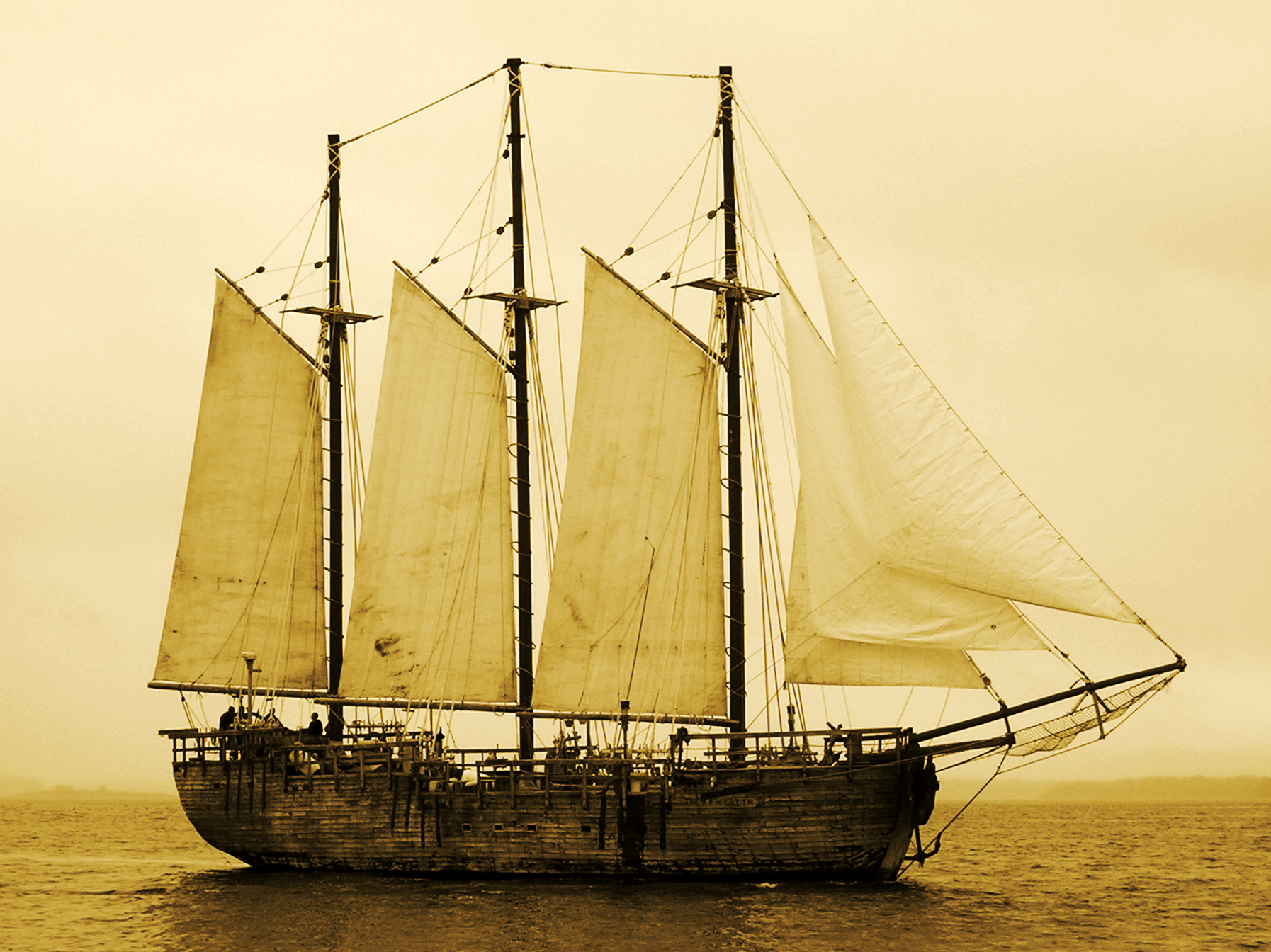 Sailing vessel "RawFaith" under full sail in Penobscot Bay, Maine.